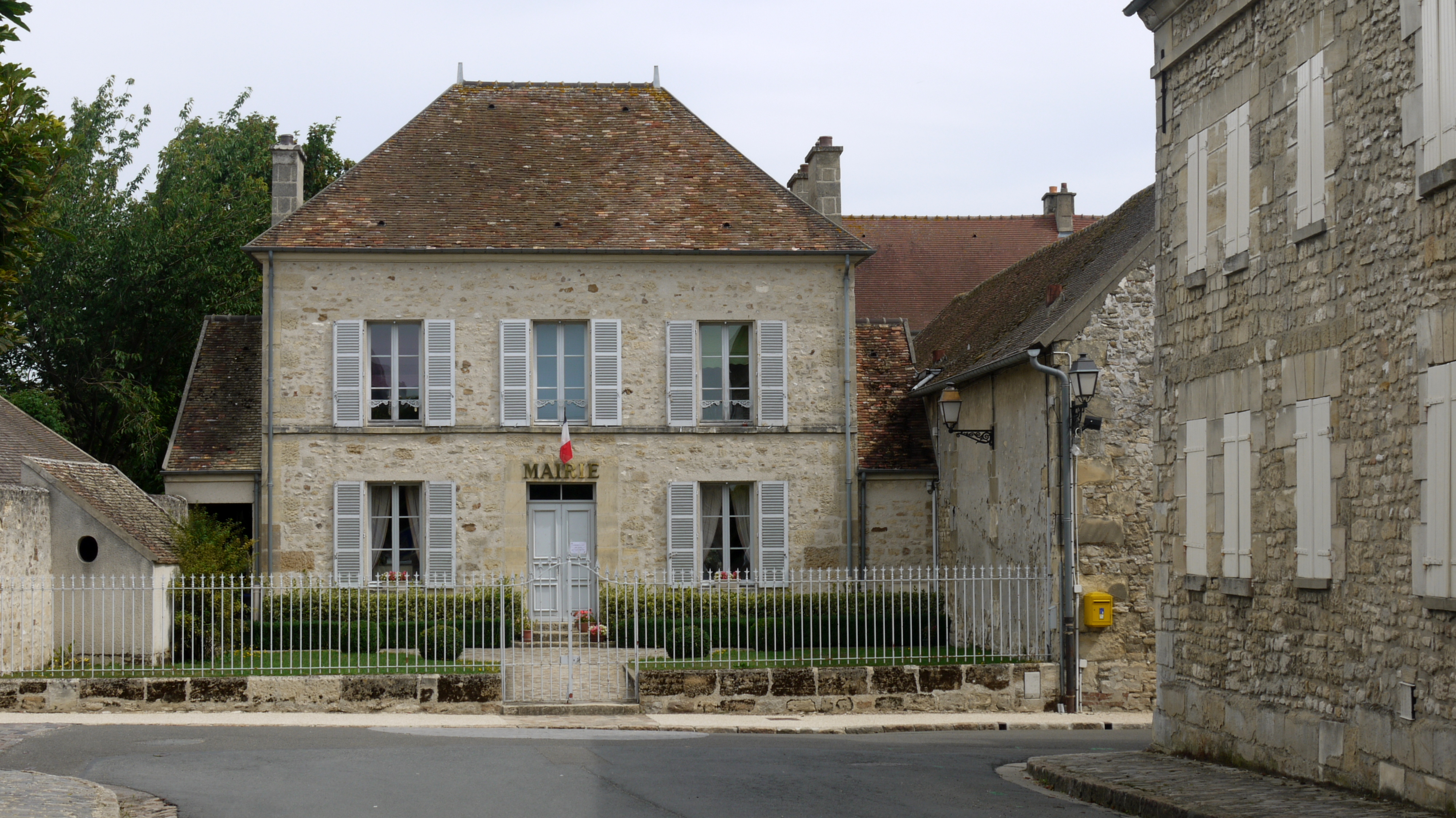 Town Hall of Commeny, Vexin français, Ile de France